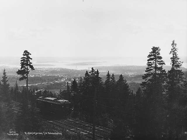 The Holmenkollen Line in Oslo, Norway